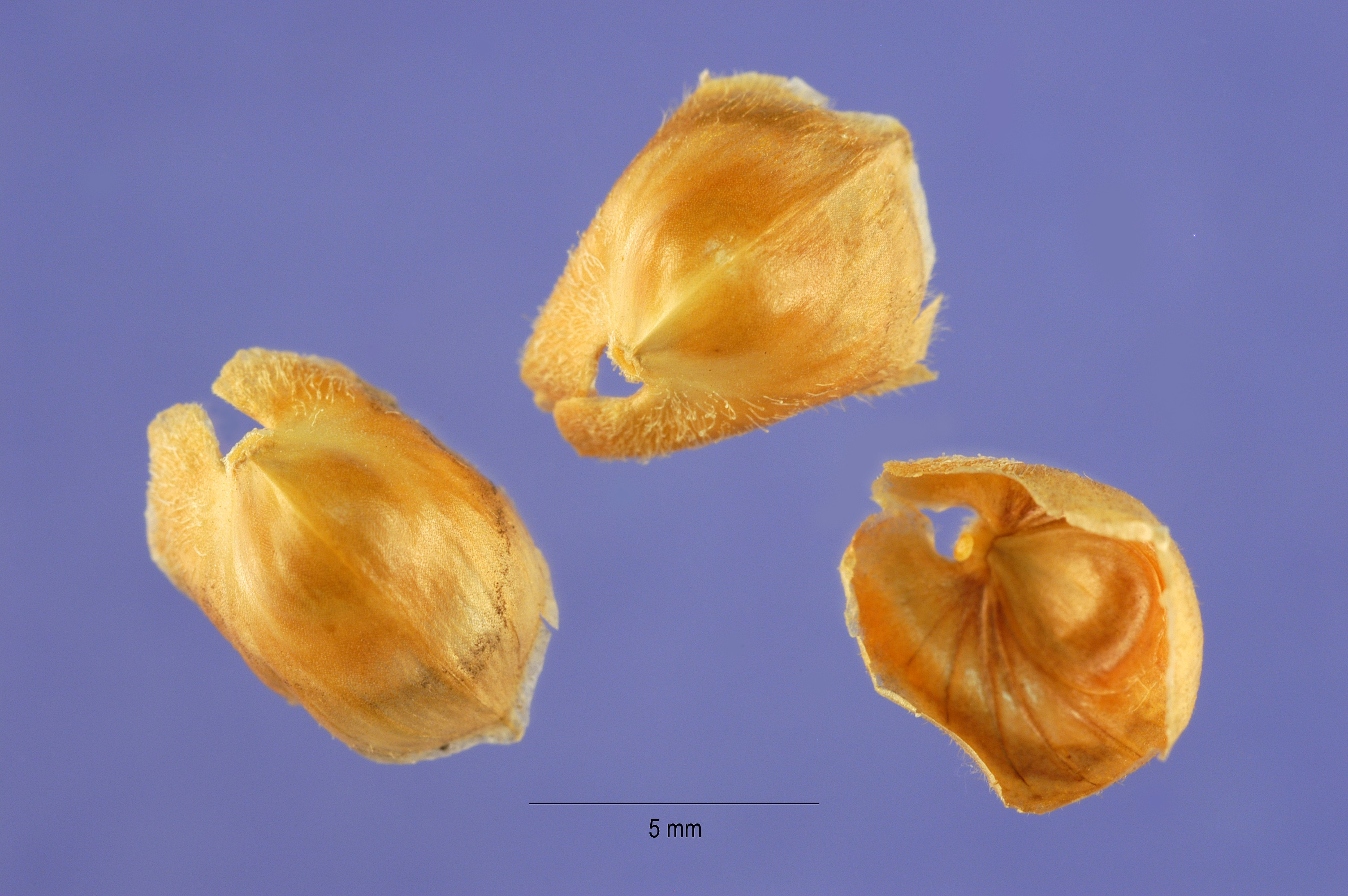 Briza maxima from Steve Hurst. Provided by ARS Systematic Botany and Mycology Laboratory. South Africa.